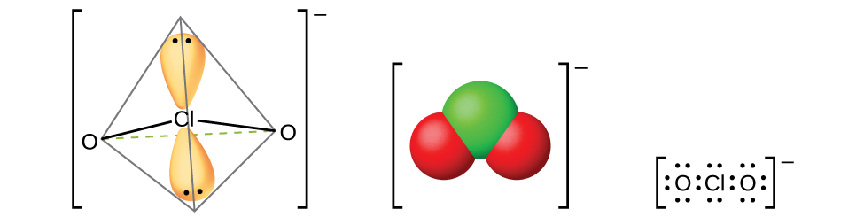 Image or illustration from the book: Chemistry Caption:Missing, please see book Book summary:Chemistry is designed for the two-semester general chemistry course. For many students, this course provides the foundation to a career in chemistry, while for others, this may be their only college-level science course. As such, this textbook provides an important opportunity for students to learn the core concepts of chemistry and understand how those concepts apply to their lives and the world around them. The text has been developed to meet the scope and sequence of most general chemistry courses. At the same time, the book includes a number of innovative features designed to enhance student learning. A strength of Chemistry is that instructors can customize the book, adapting it to the approach that works best in their classroom.